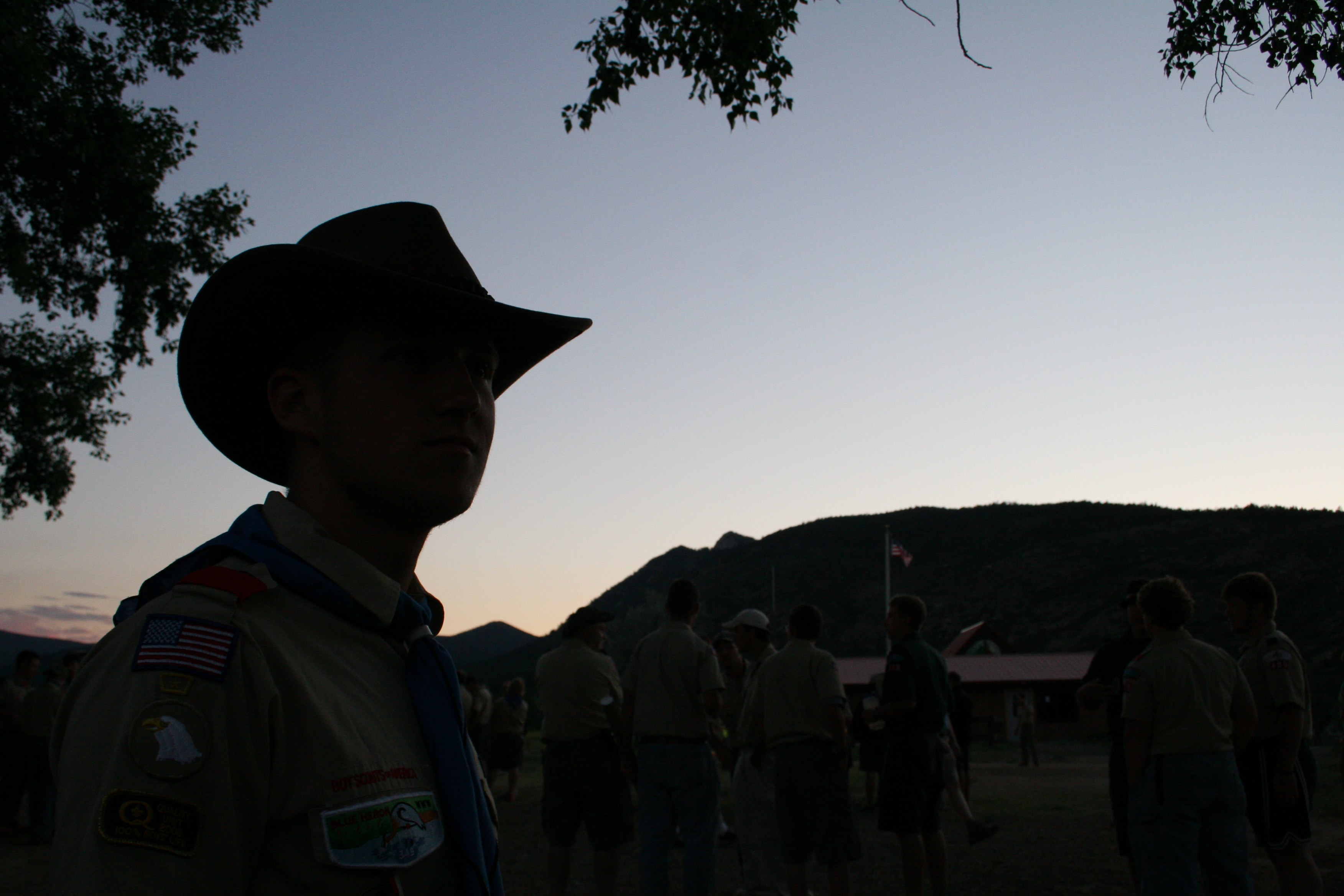 A Scout silhouetted in front of Mt. Baldy at Philmont Scout Ranch.